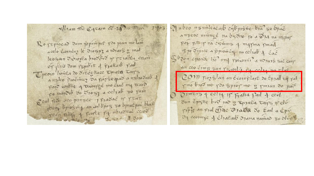 EOIN fíorghlan an chaoinfhlaith do thriall tar sál’ — chomh maith le droch-riocht na hÉireann trí chéile ‘ó d’imthig ar ccliar is Fianna Fáil air ccúl - William McCartain 29th March 1703